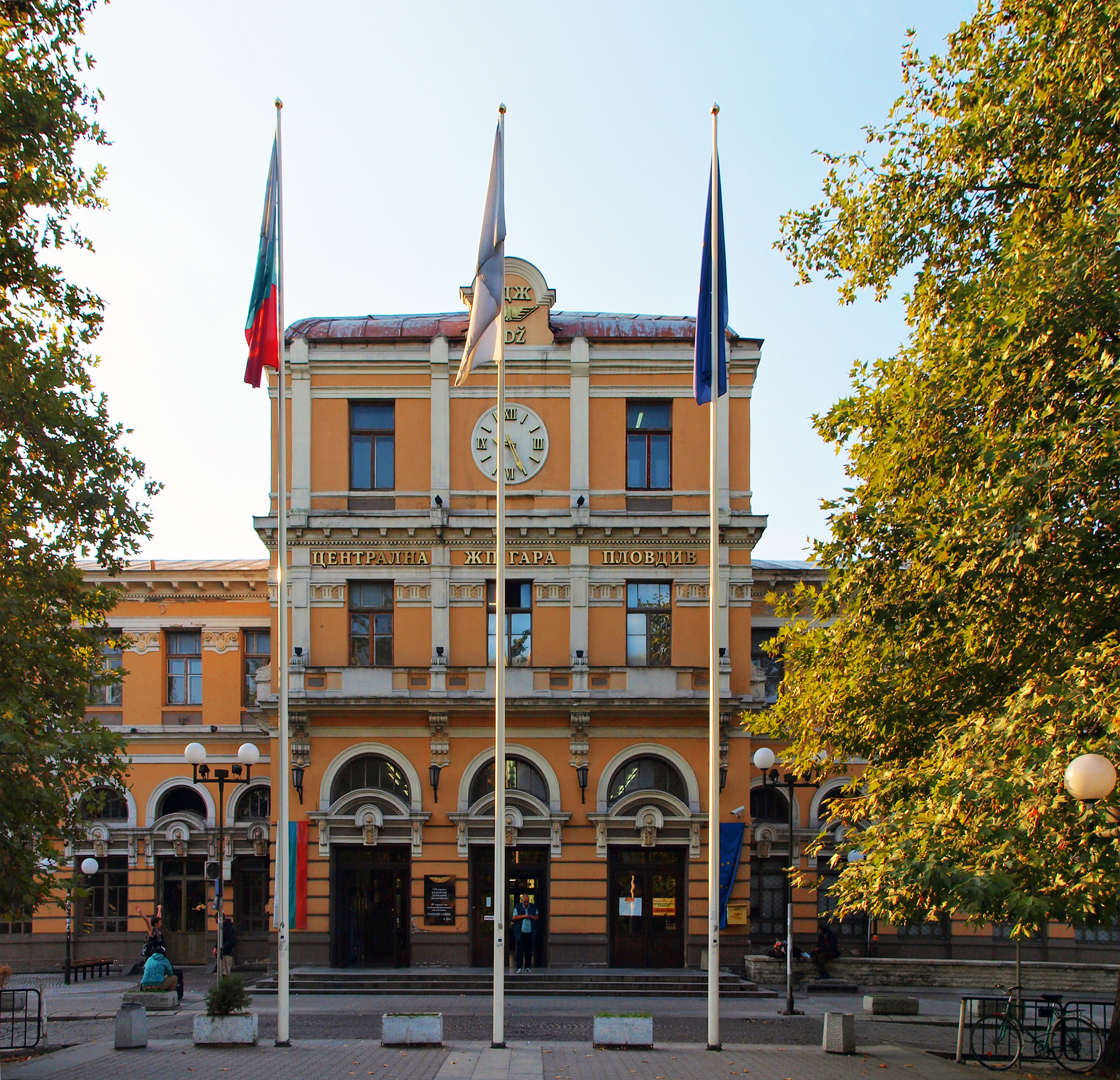 Facade of the central railway station of Plovdiv, Bulgaria